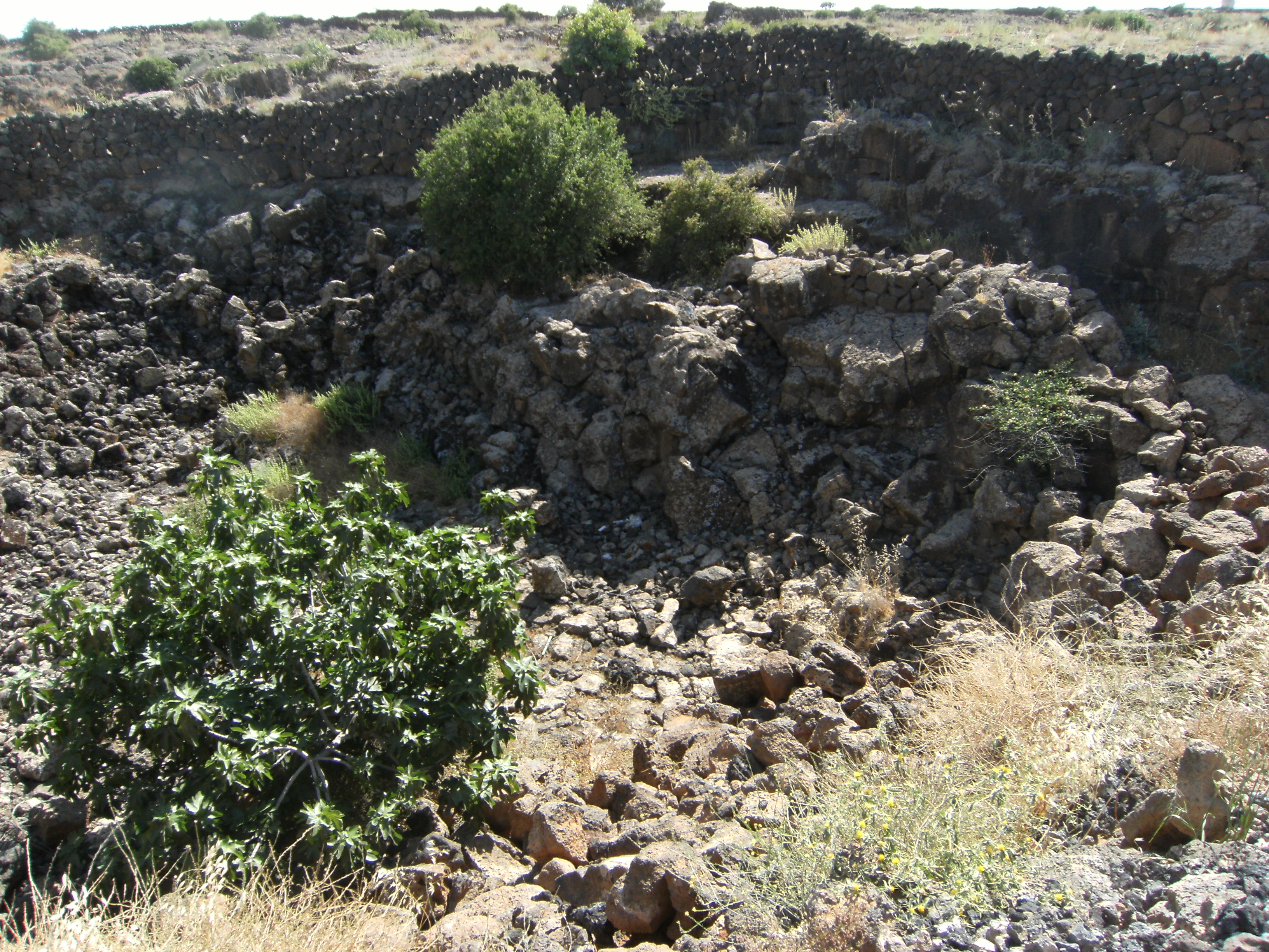 Lajat biosphere reserve volcanic plates, Syria.